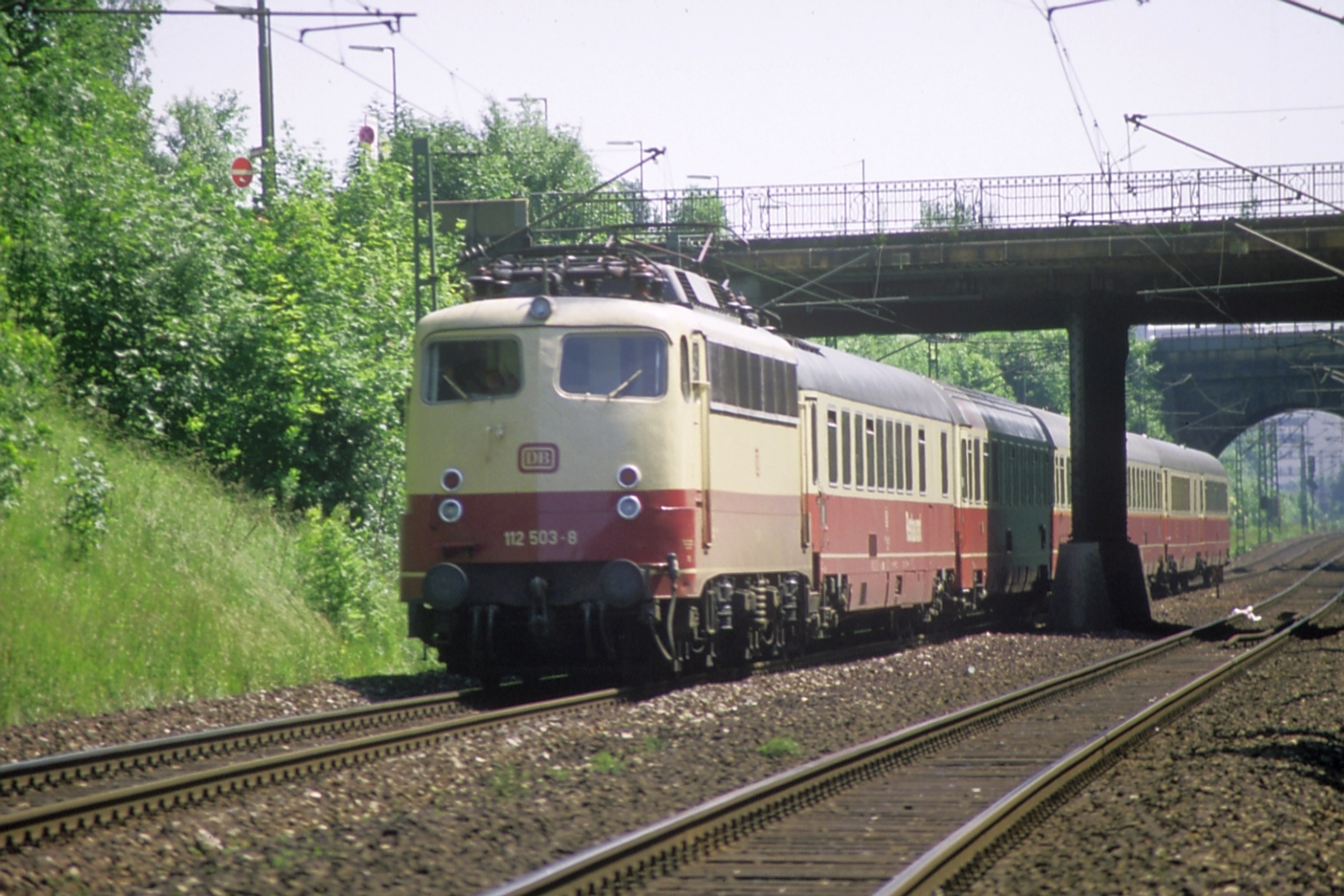 DB locomotive 112 503-8 (built in 1968) hauling the TEE Rheingold, in southern Munich, en route to Salzburg. The Rheingold mainly operated Amsterdam–Basel/Geneva, but from 1983 until 1987 it also had a branch from Mannheim/Mainz to Munich, which extended to Salzburg in summer only, 1985 and 1986.